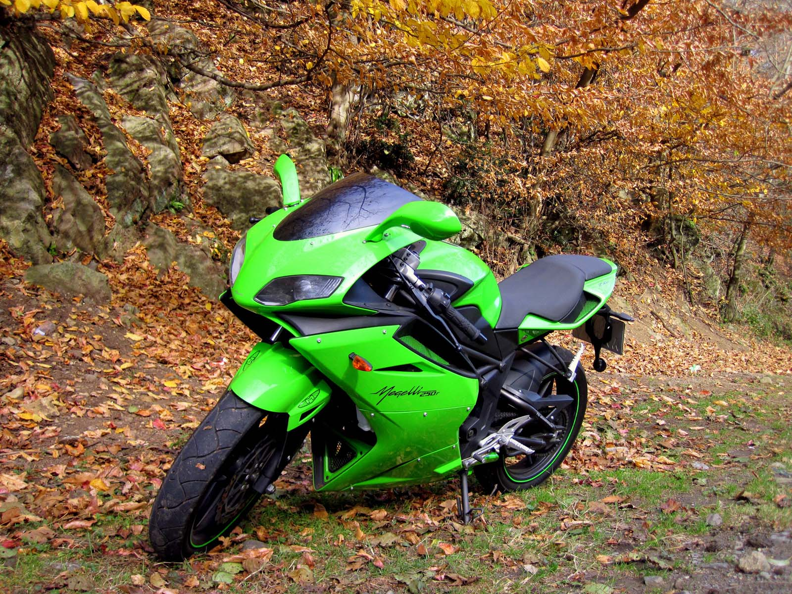 Megelli 250r In Iran